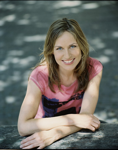 Brecht van Hulten, Dutch television presentation